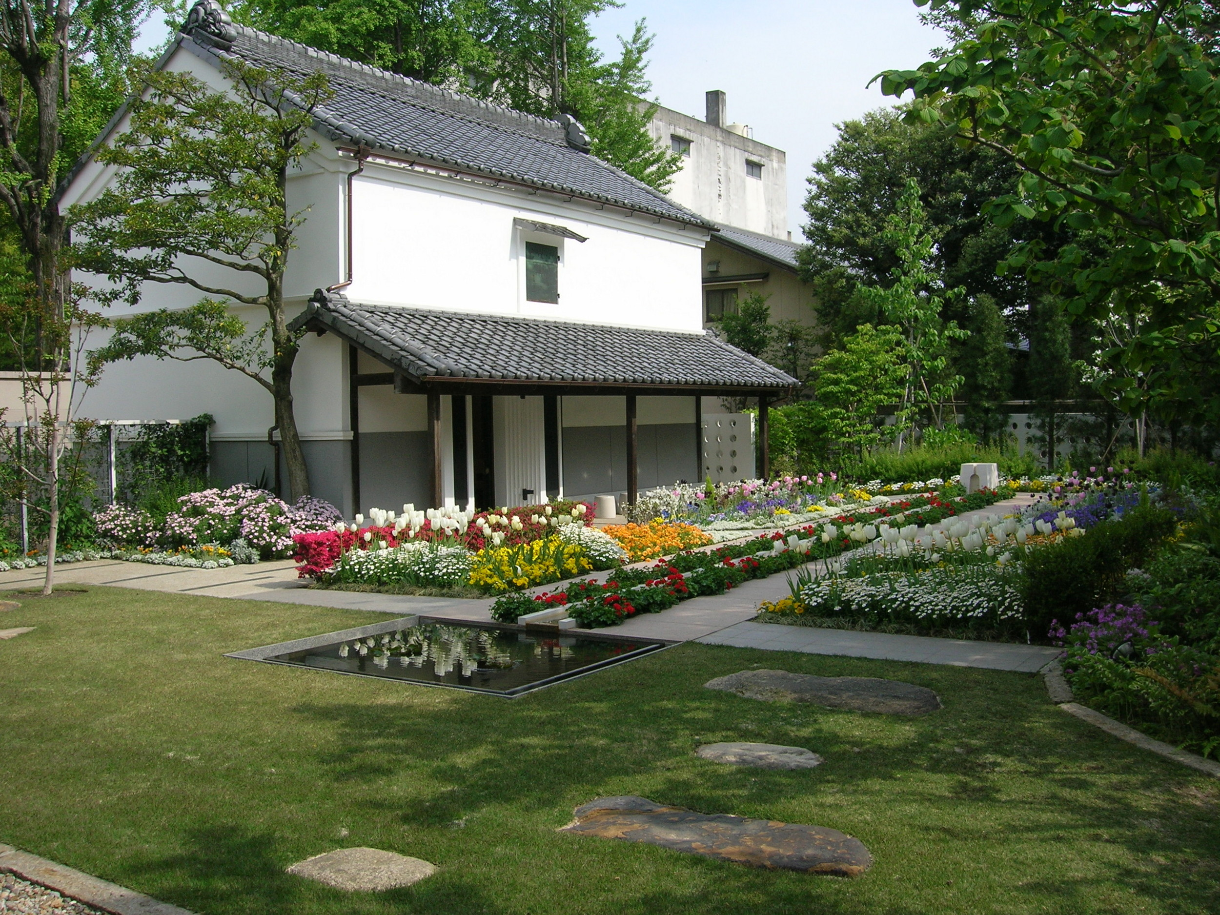 Dozô (japanese warehouse) and garden. Loc: The Cultural Path "Hyakka Hyakuso", Higashi-ku, Nagoya city, Aichi Prefecture, Japan. 文化のみち百花百草、土蔵と庭園 撮影場所 愛知県名古屋市東区